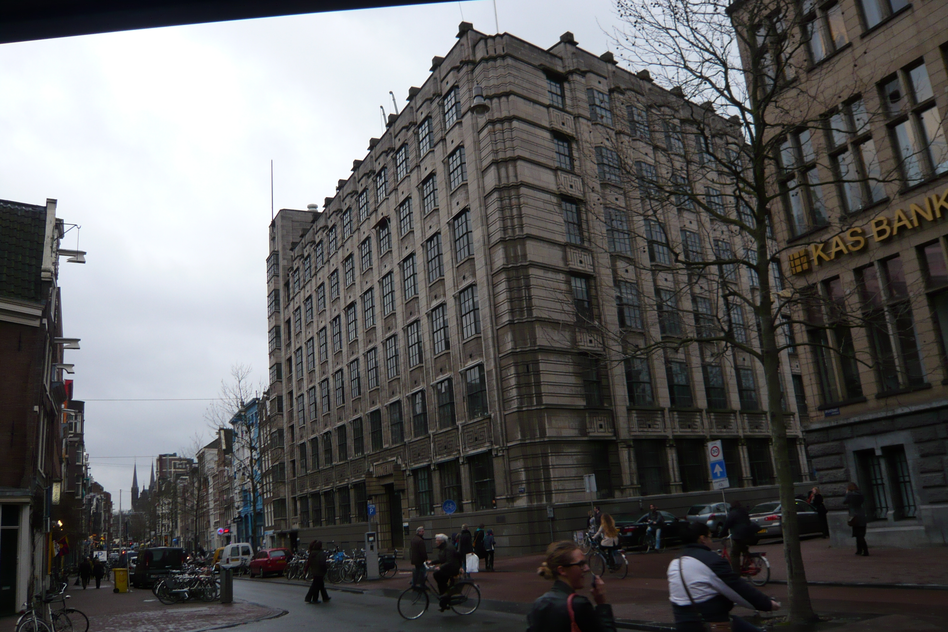 Bungehuis, Spuistraat 210, Amsterdam